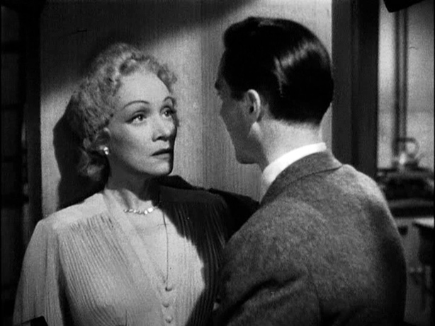 Screenshot of Marlene Dietrich and Richard Todd from the trailer for the Alfred Hitchcock film Stage Fright. Dietrich's costume is by Christian Dior.